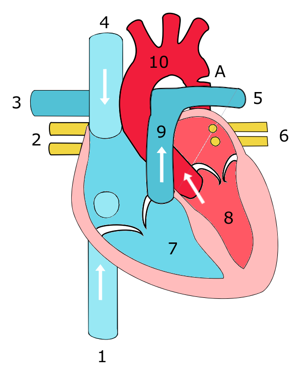 Schetch showing heart with coarctation of the aorta. Image drawn by myself, inspired by illustration by Wapcaplet. Legend: A: Coarctation (narrowing) of the aorta. 1:inferior caval vein, 2:right pulmonary veins, 3: right pulmonary artery, 4:superior caval vein, 5:left pulmonary artery, 6:left pulmonary veins, 7:right ventricle, 8:left ventricle, 9:main pulmonary artery, 10:Aorta